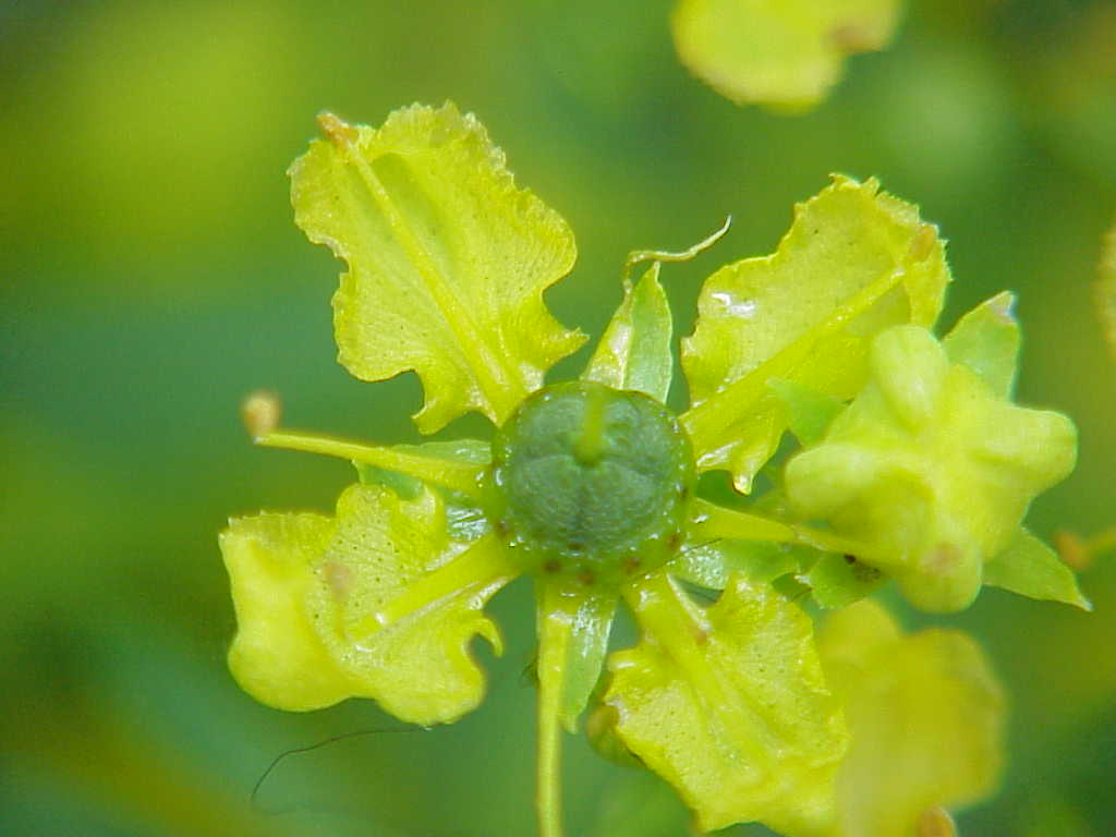 Species: Ruta graveolens Family: Rutaceae Image No. 5